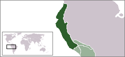 Locator map for the Chinchay SuyuChinchay Suyu